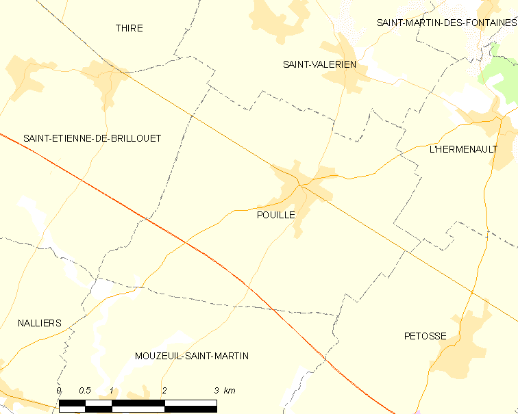 Map of French municipality Pouillé